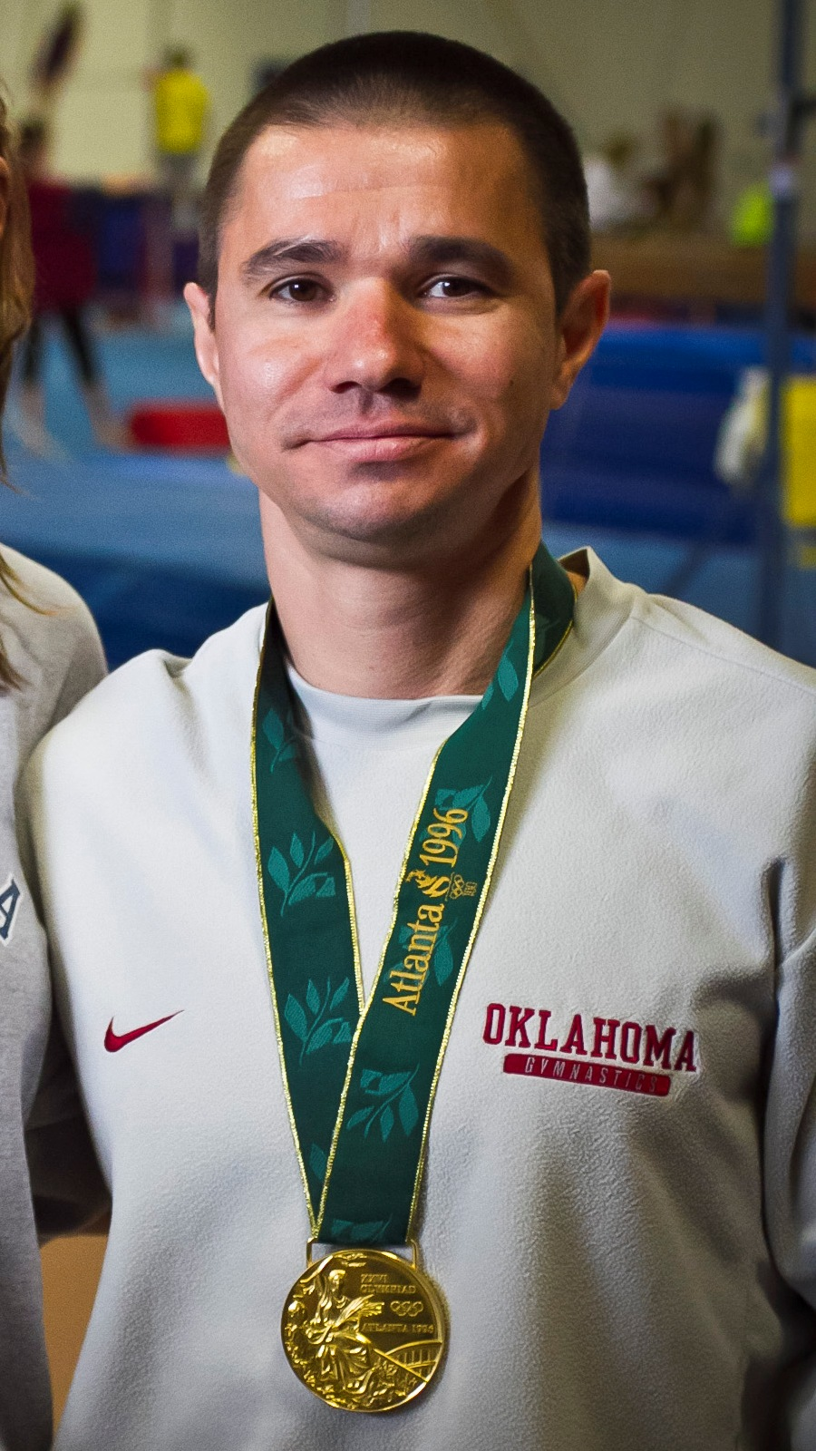 Rustam Sharipov, twice Olympic champion.